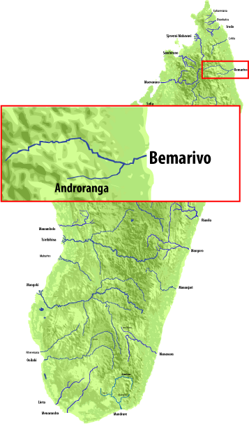 Description of drenage basin of river Bemarivo